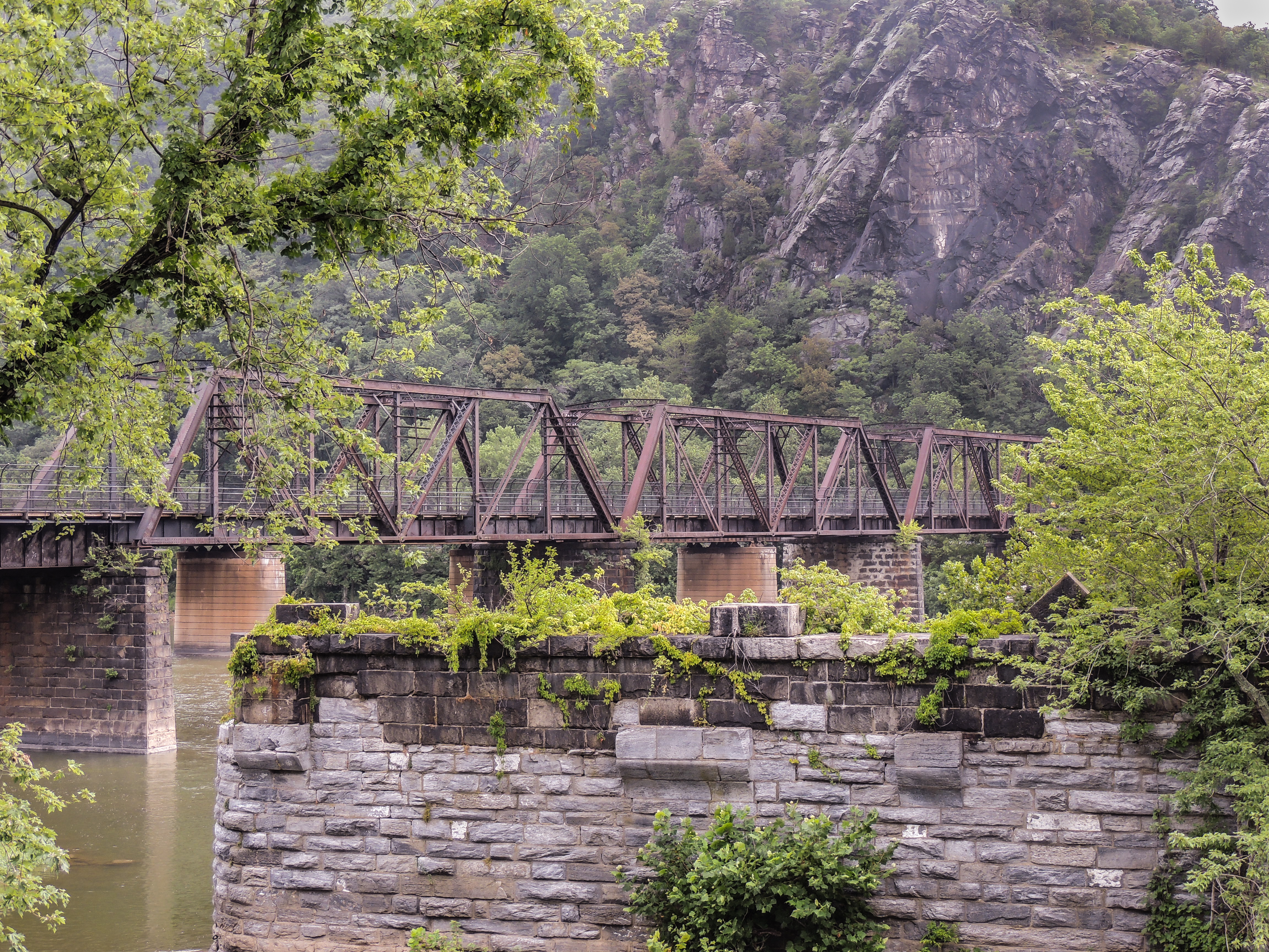 View of the railroad bridge across the Potomac River at Harpers Ferry, West Virginia. Abandoned bridge pier in foreground and Maryland Heights in the background. Also visible is the old toilet powder ad painted on the cliffs. Edited in Adobe Lightroom.